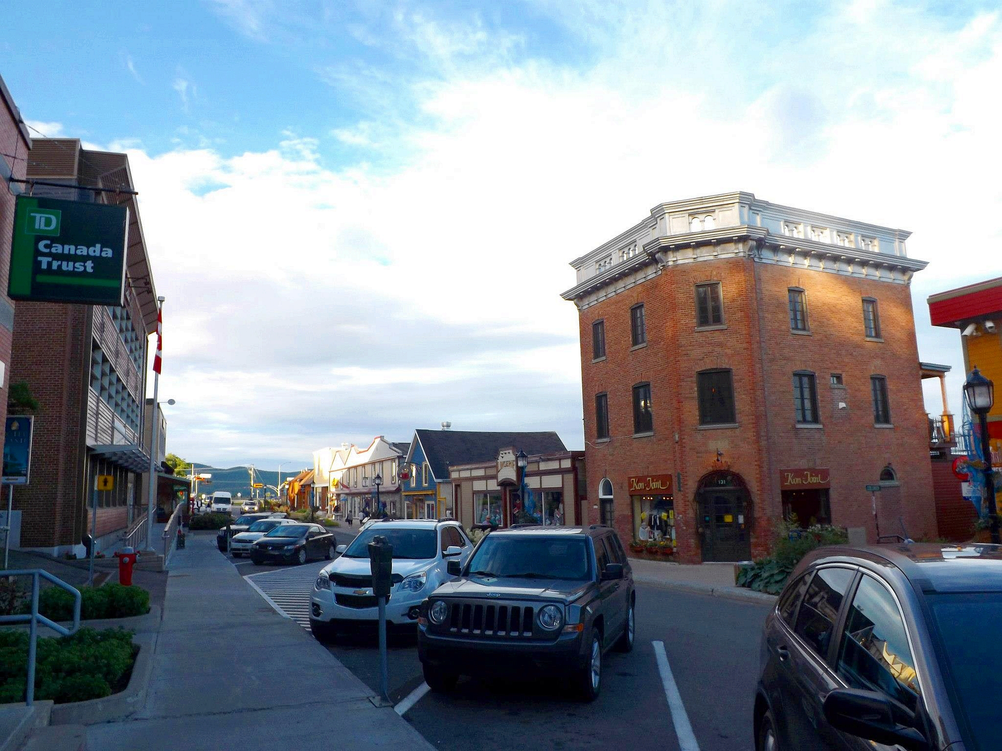 Looking northeast down rue de la Reine from between rue de la Cathédrale and rue Morin, Gaspé, Québec, 9th July 2012.